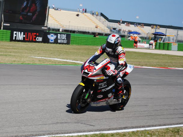 Shoya Tomizawa 2010 Misano